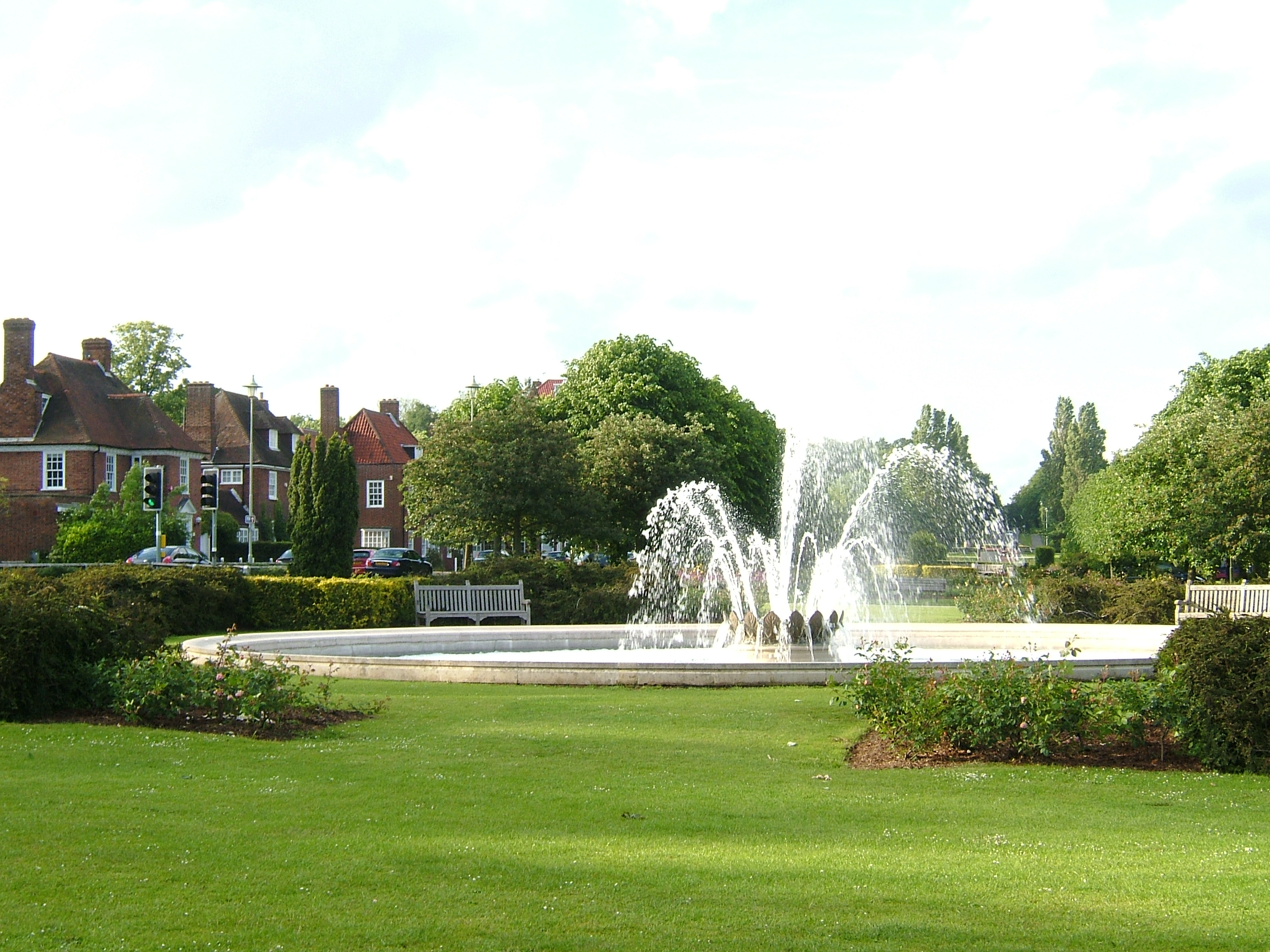 The Coronation Fountain, Parkway, Welwyn Garden City, Hertfordshire, England, toward the north west